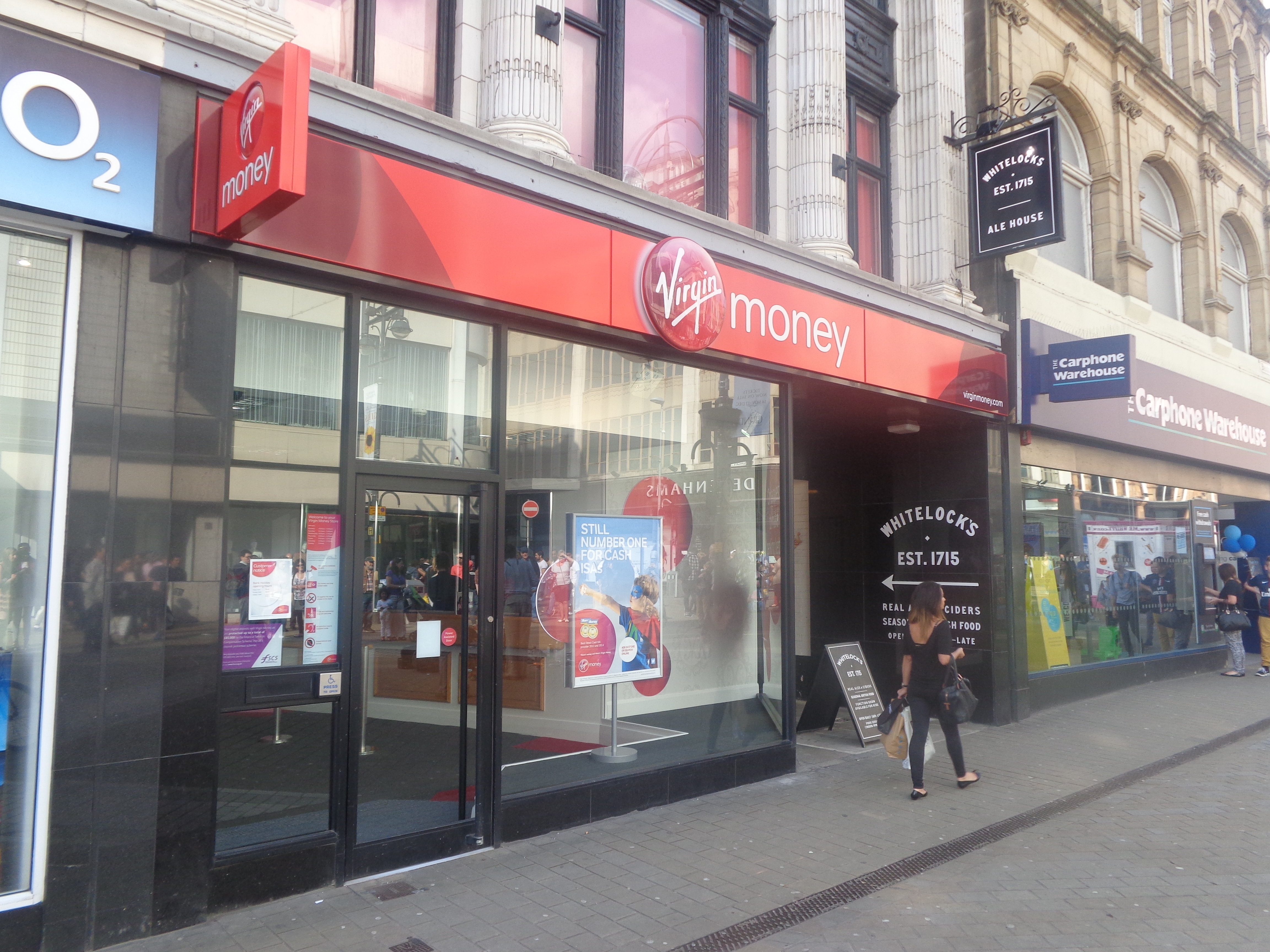 Virgin Money, Briggate, Leeds, West Yorkshire. Taken on the afternoon of Easter Monday the 6th of April 2015.